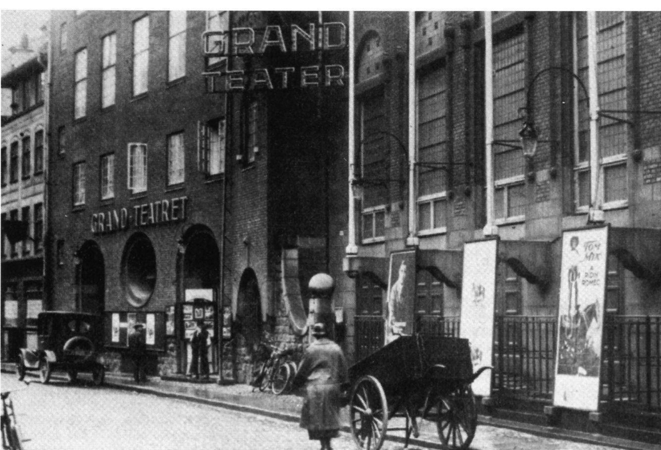 Empire Teatret, now Grand Teatret, on Mikel Bryggersgade in Copenhagen, Denmark